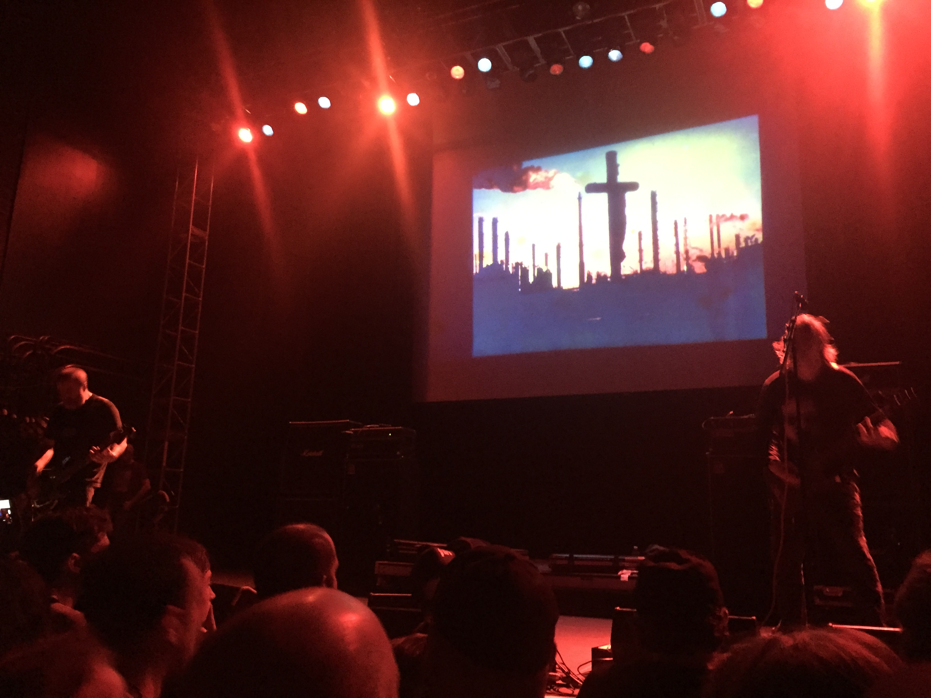 Godflesh live at Maryland Deathfest, Baltimore, MD on 05/28/18